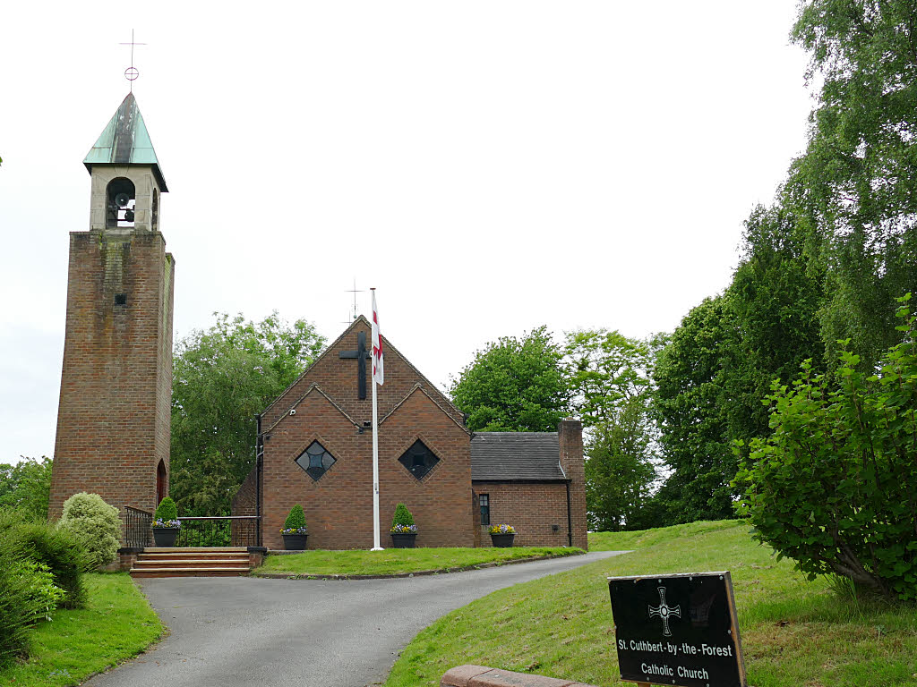 Church of St Cuthbert by the Forest, Mouldsworth. The story behind this Catholic church is that in the 1920’s there was an influx of Irish farm workers, and the landlady of the Station Hotel SJ5170 : The Goshawk, Station Road, Mouldsworth persuaded a curate from St Werburgh’s to come out and say Mass in a pavilion behind the hotel. Mass times therefore had to coincide with train times. After the war, the landlady purchased the land and St Cuthbert's was built from 1953-55 to the designs of Francis Xavier Velarde. The church, with its detached campanile, was listed grade II in 2014 (list entry 1418016). It acquired its present extended name when ‘by the Forest’ was added in 2000.